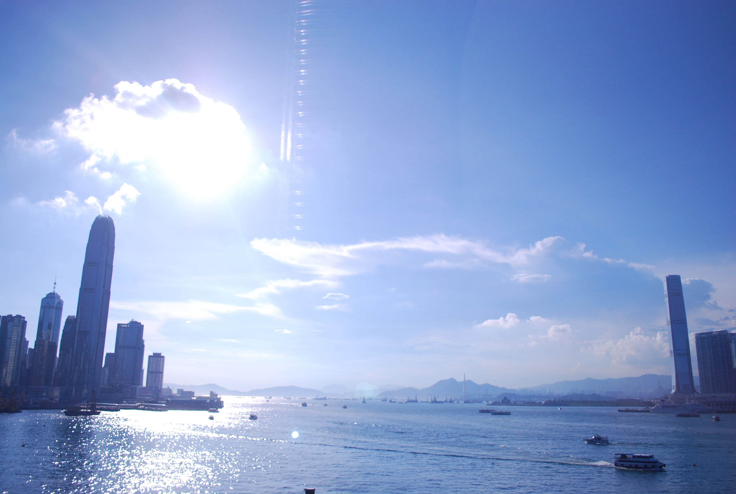 This photograph emphasis the concept of the "Victoria Harbour Gateway". On the left hand side it's the 2ifc, locates in Central of Hong Kong Island; while on the right, it's the ICC locates in the West Kowloon.